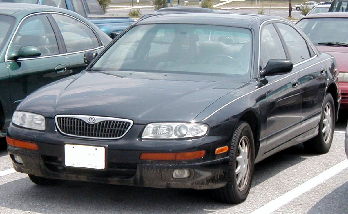 Mazda Millenia photographed in USA.